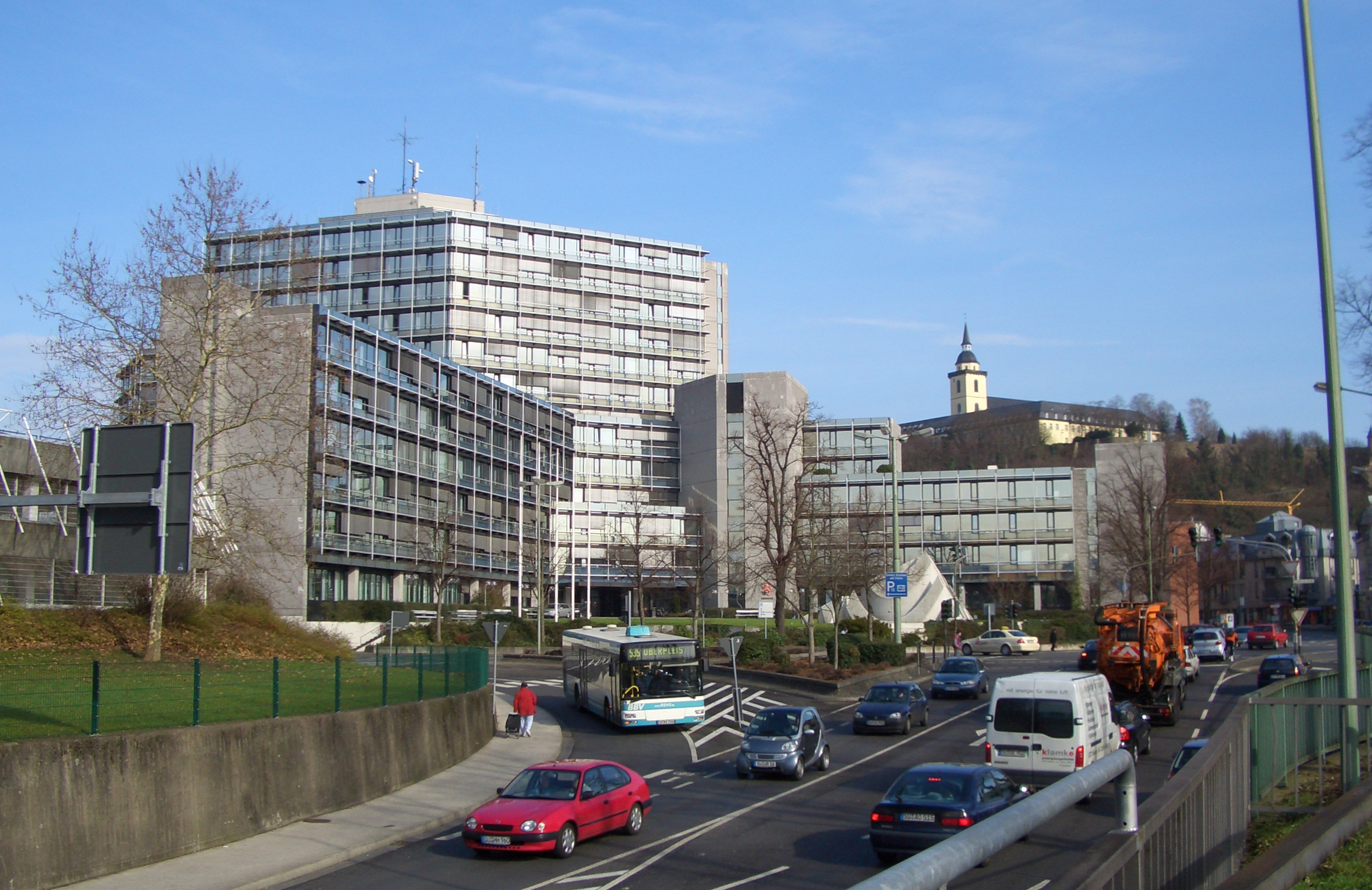 Photo of the building of the administration of district Rhein-Sieg, Germany, in the background is Michaelsberg Abbey.